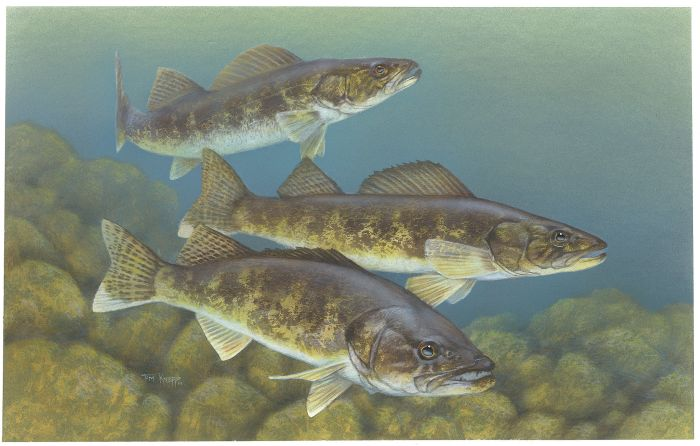 Walleye (Sander vitreus) from the U.S. Fish and Wildlife Service